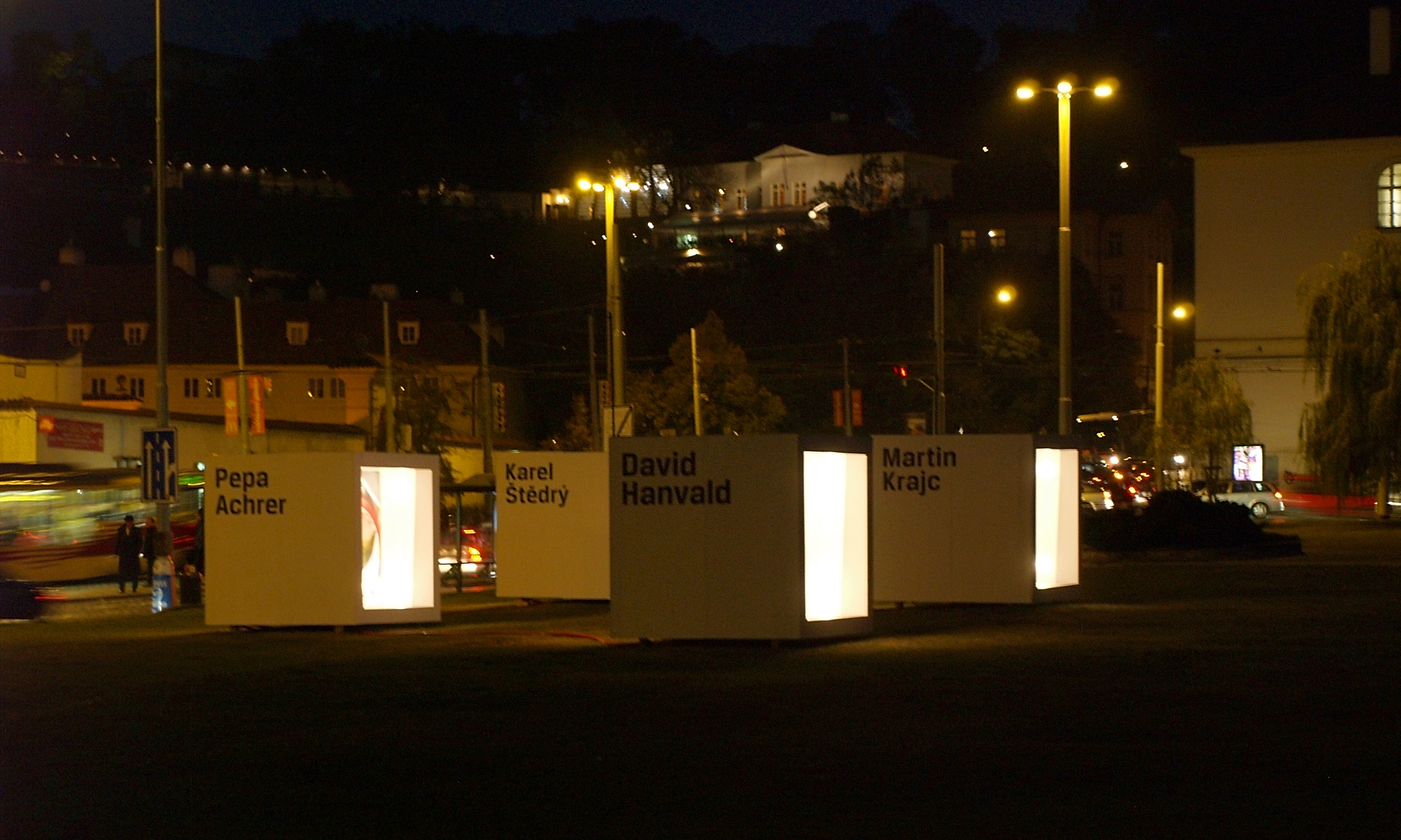 Exhibition of visual art group “Obr.”